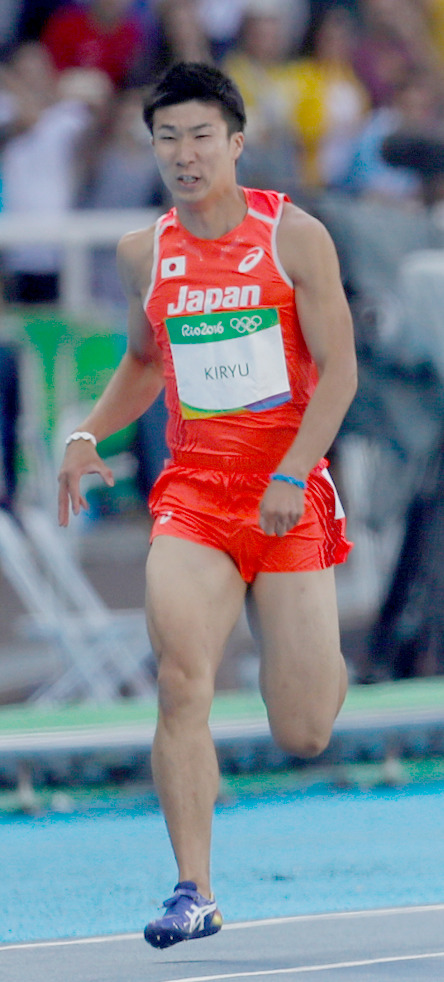 Men's 100 m sprint heats, Rio Olympics